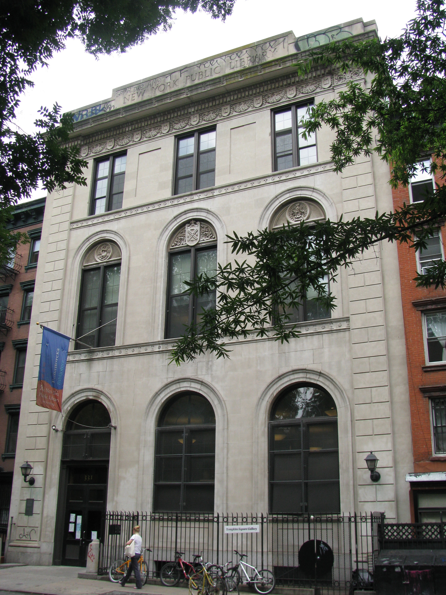 The Tompkins Square Branch of the New York Public Library, funded by Andrew Carnegie.